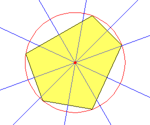 Pentagon with perpendicular bisectors and circumcircle